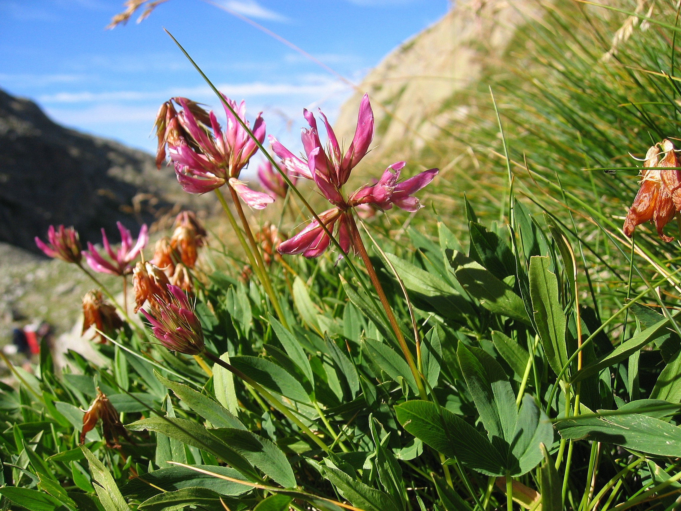 Trifolium alpinum Near Lacs d'Arriel, Pyrenees, Spain